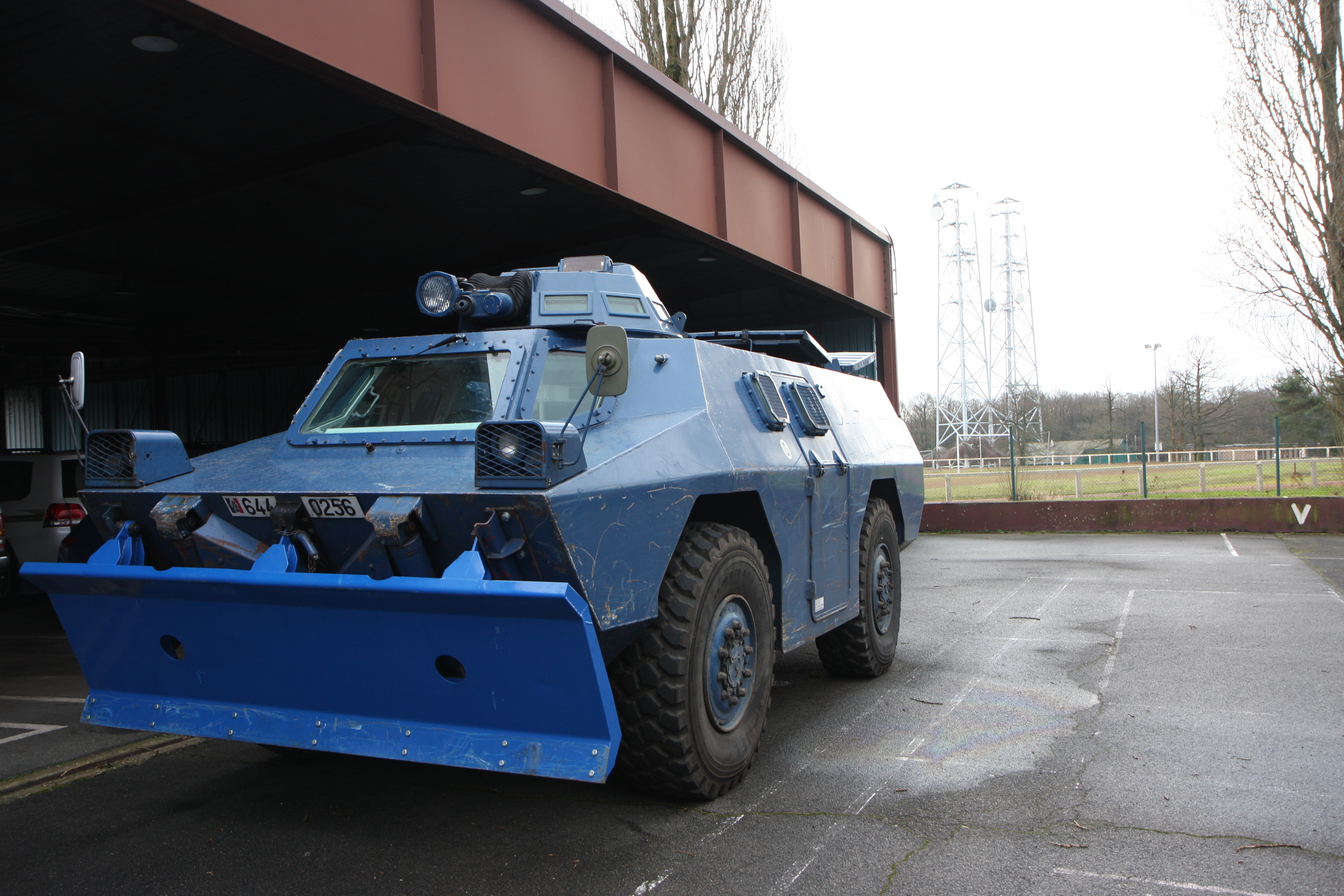 VBRG-1